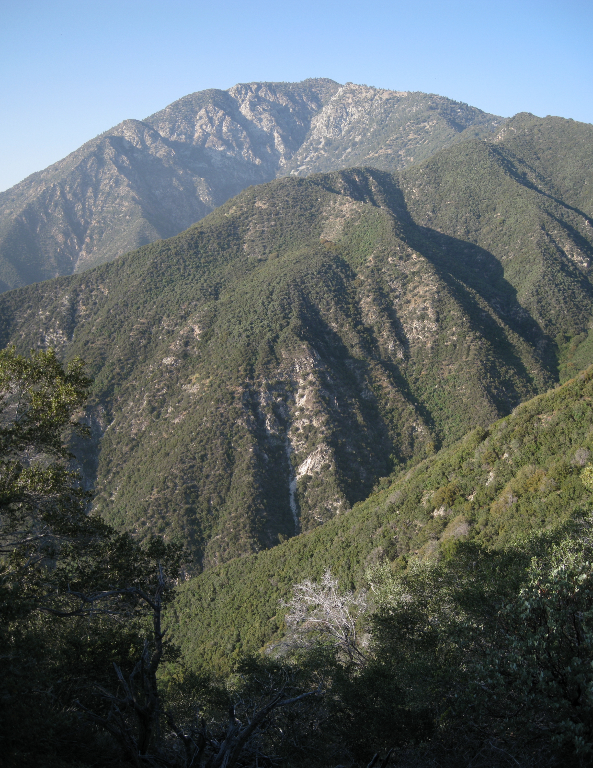 Iron Mountain #1, 8007 ft (2,441 m), San Gabriel Mounts, California, from the south